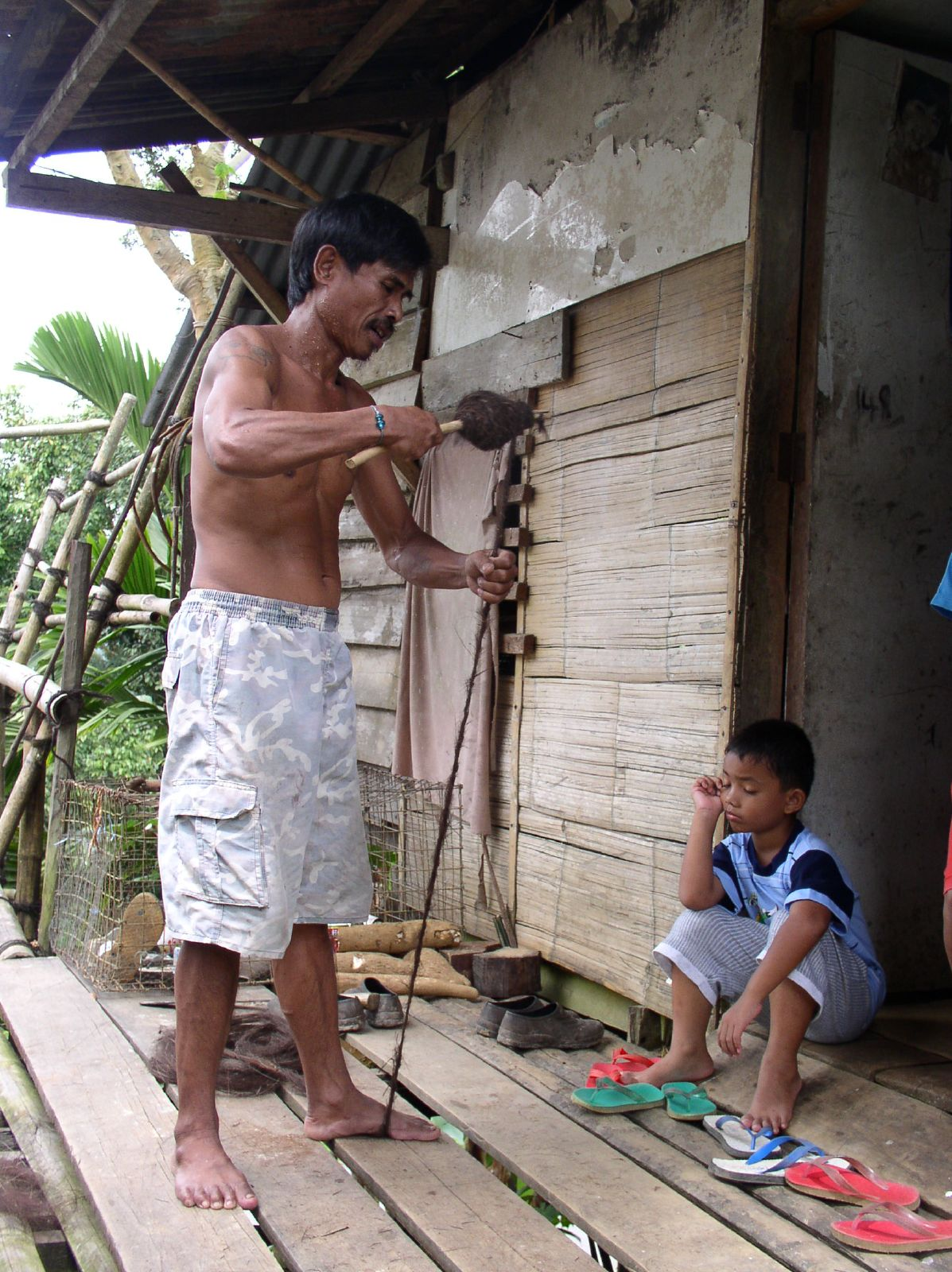 It's a dying art!